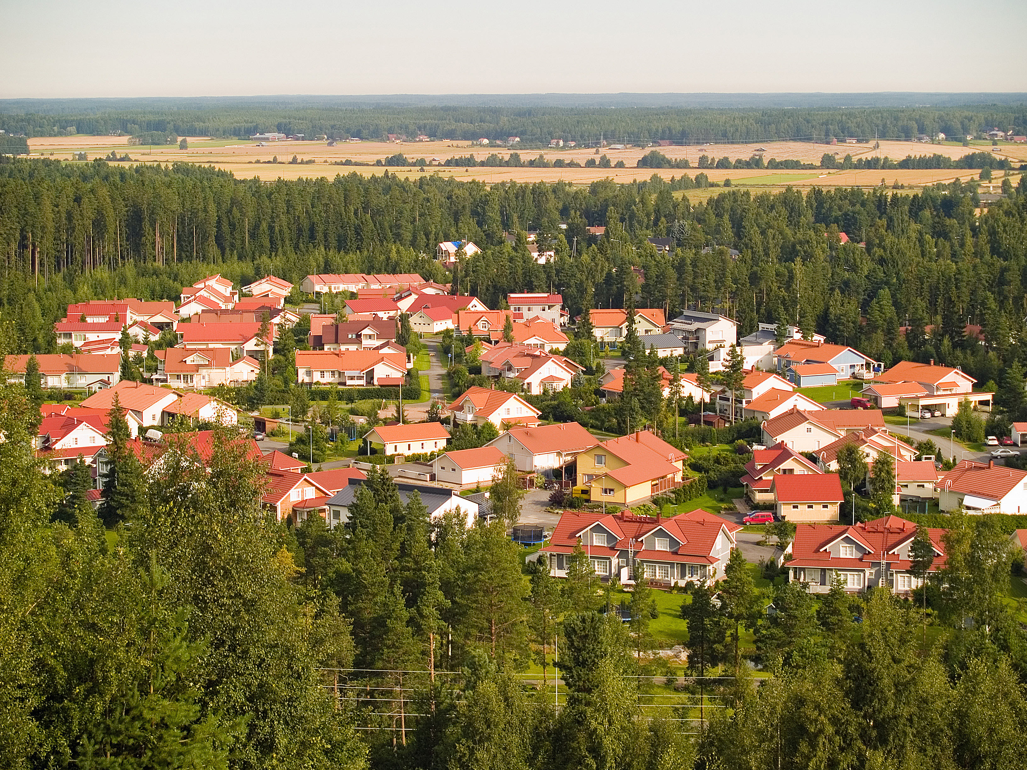 Kultavuori suburb of Seinajoki, Finland, seen from the top of Jouppilanvuori hill.